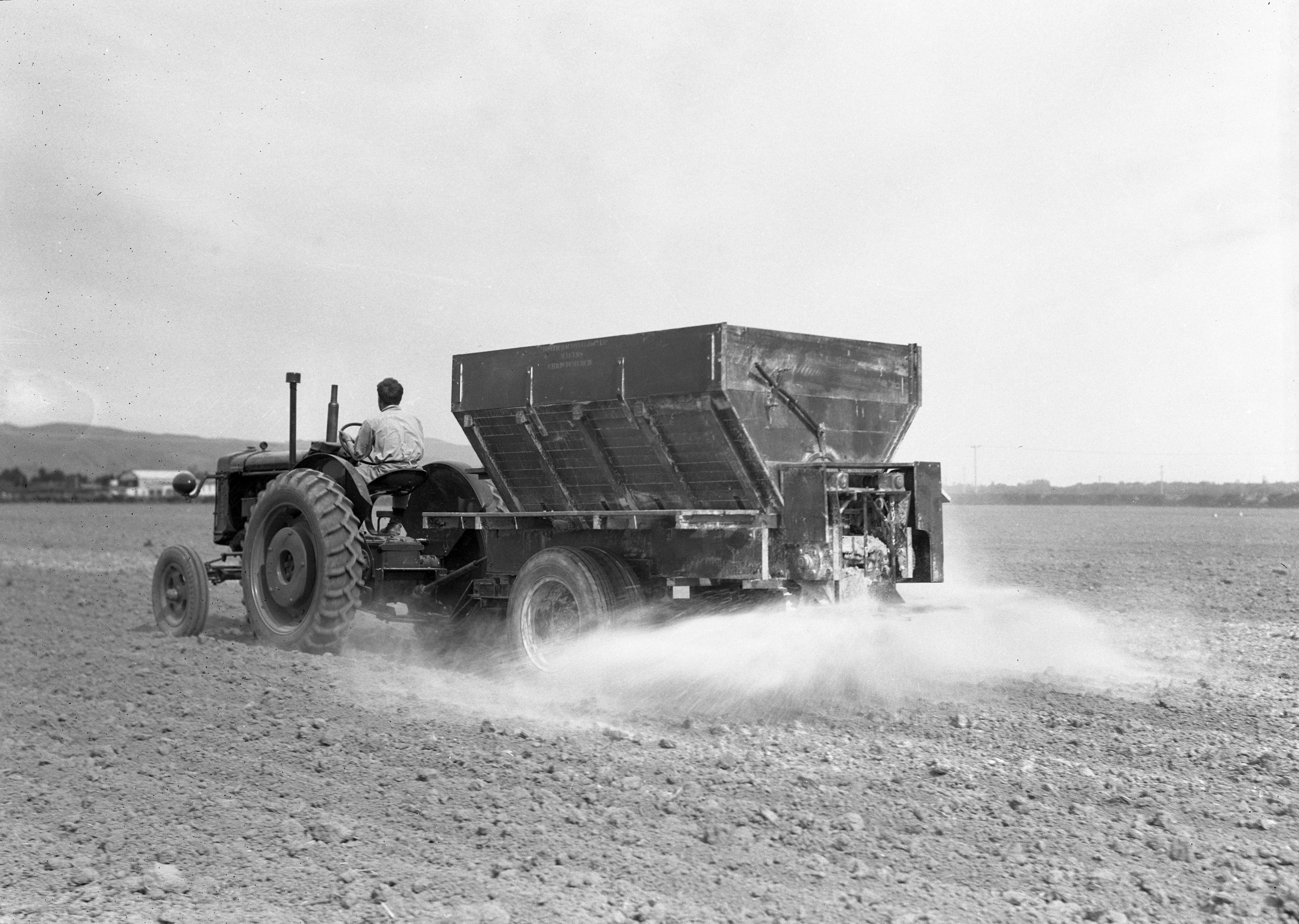 A bulk lime spreader operating on 8 September 1949.